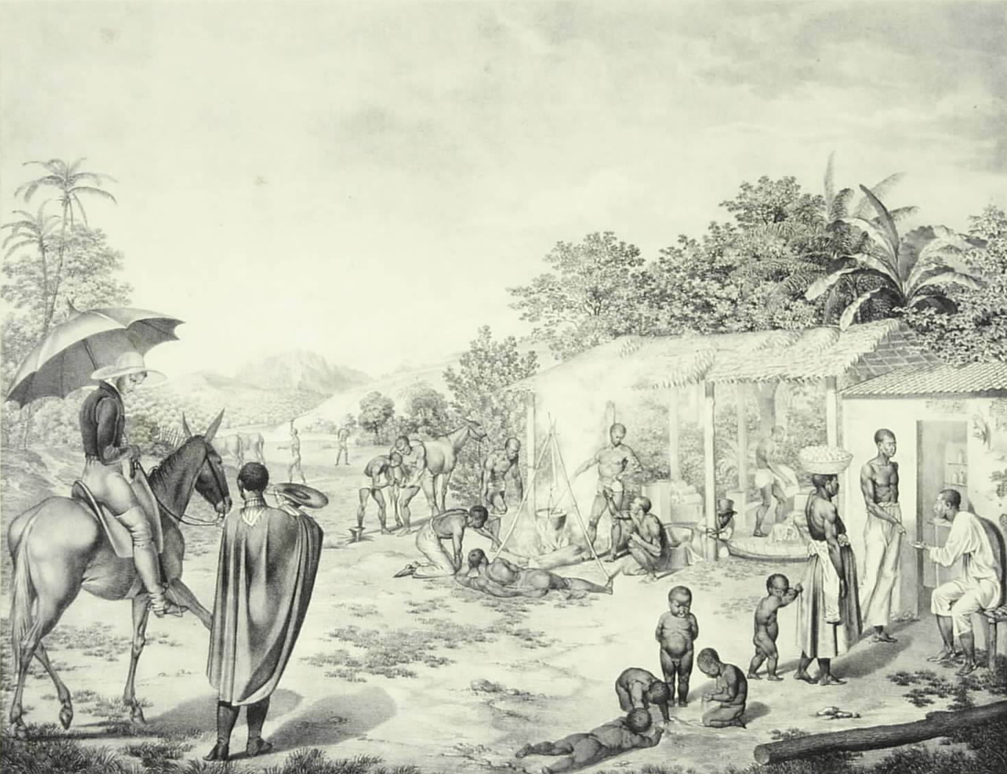 "Rancho unweit der Serra do Caraca" ("Rancho ao pé da Serra do Caraça"), ilustração publicada no livro Atlas zur Reise in Brasilien [München: Gedruckt bei M. Lindauer, 1826?]